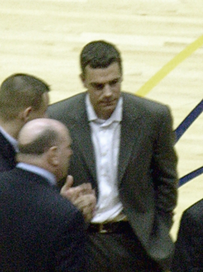 Washington State Cougars men's head basketball coach Tony Bennett (center) confers with his assistant coaches during a road game against the California Golden Bears at Haas Pavilion. The Golden Bears won 71-63.